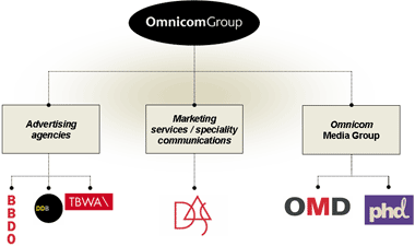 OmnicomGroup